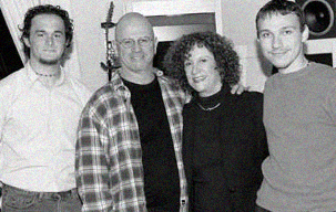 Mikhail Tarasov & Mike Post